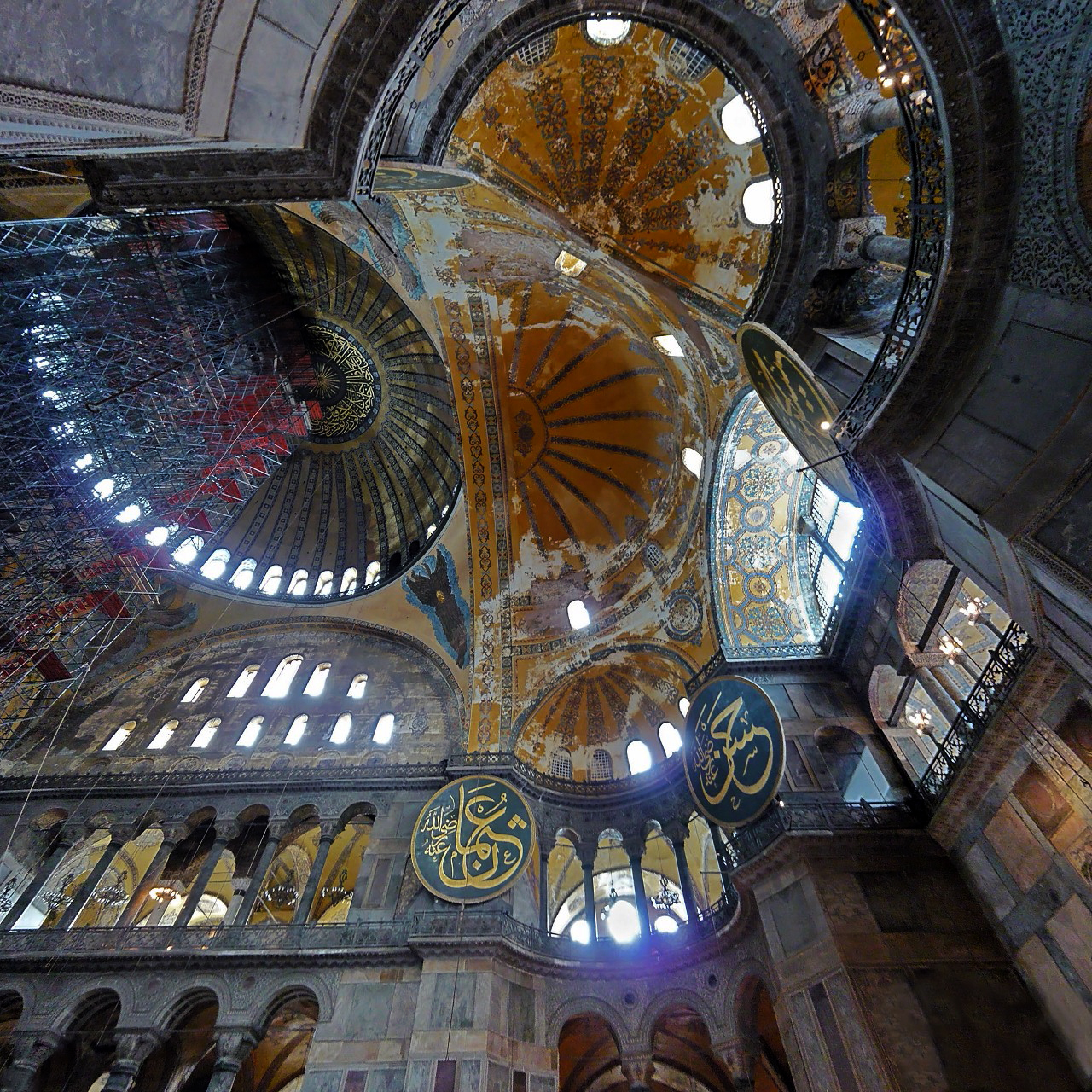 The Hagia Sophia interior, in Istanbul